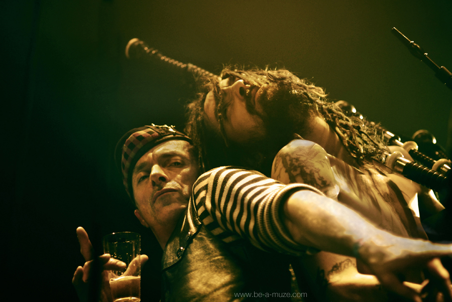 The Real McKenzies on 01/29/2010 in Hedon Zwolle, Netherlands